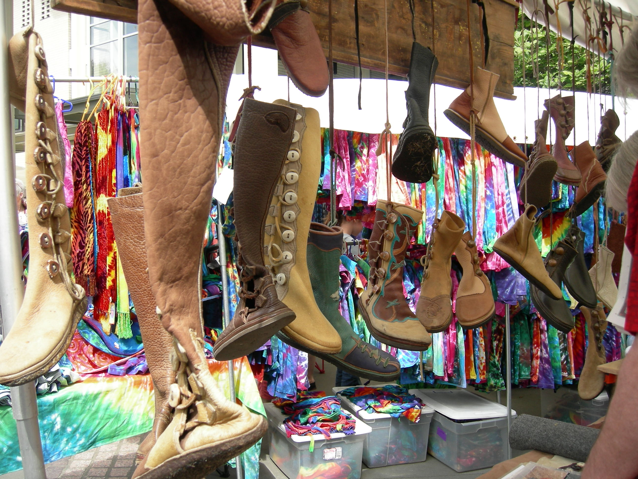 Boots for sale at Northwest Folklife Festival, Seattle Center.